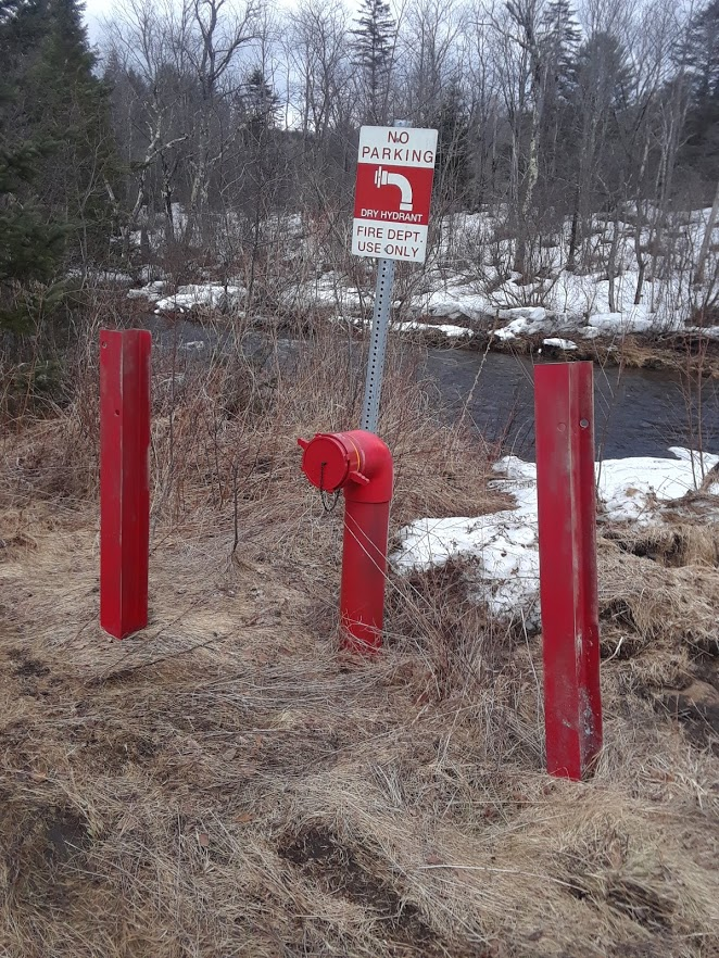 Dry fire hydrant in East Haven, Vermont (April 2018).